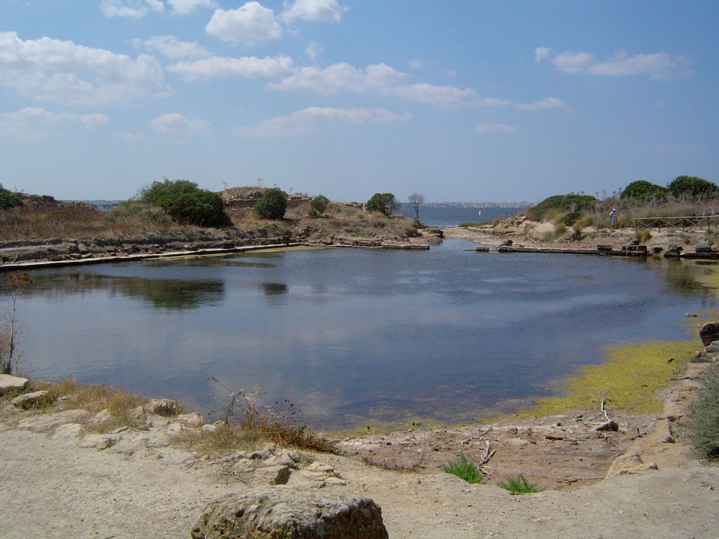 Kothon of Mozia, Italy